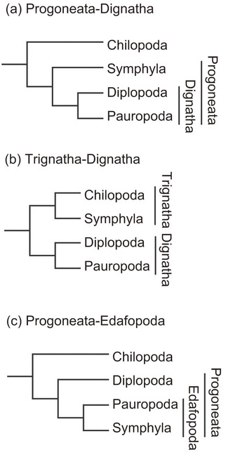 Major hypotheses for the relationships among myriapod classes. (a, b) Traditional views based on morphology (c) Hypotheses based on molecular analyses